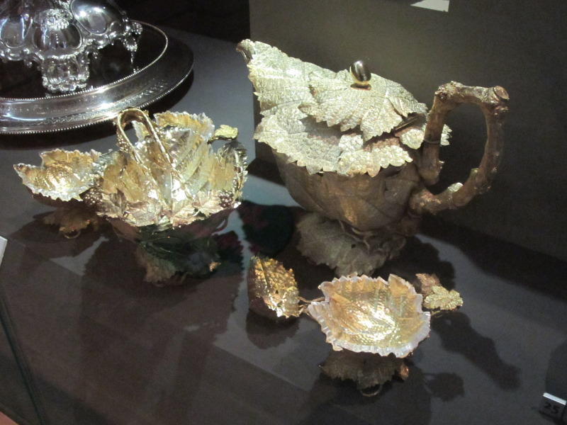 Novelty silver-gilt tea service, Walker Art Gallery, Liverpool, England. In the form of overlapping vine leaves with twisting tendrils and small bunches of grapes. Made by William Smith of Liverpool. Hallmarked at Chester in 1870-71.